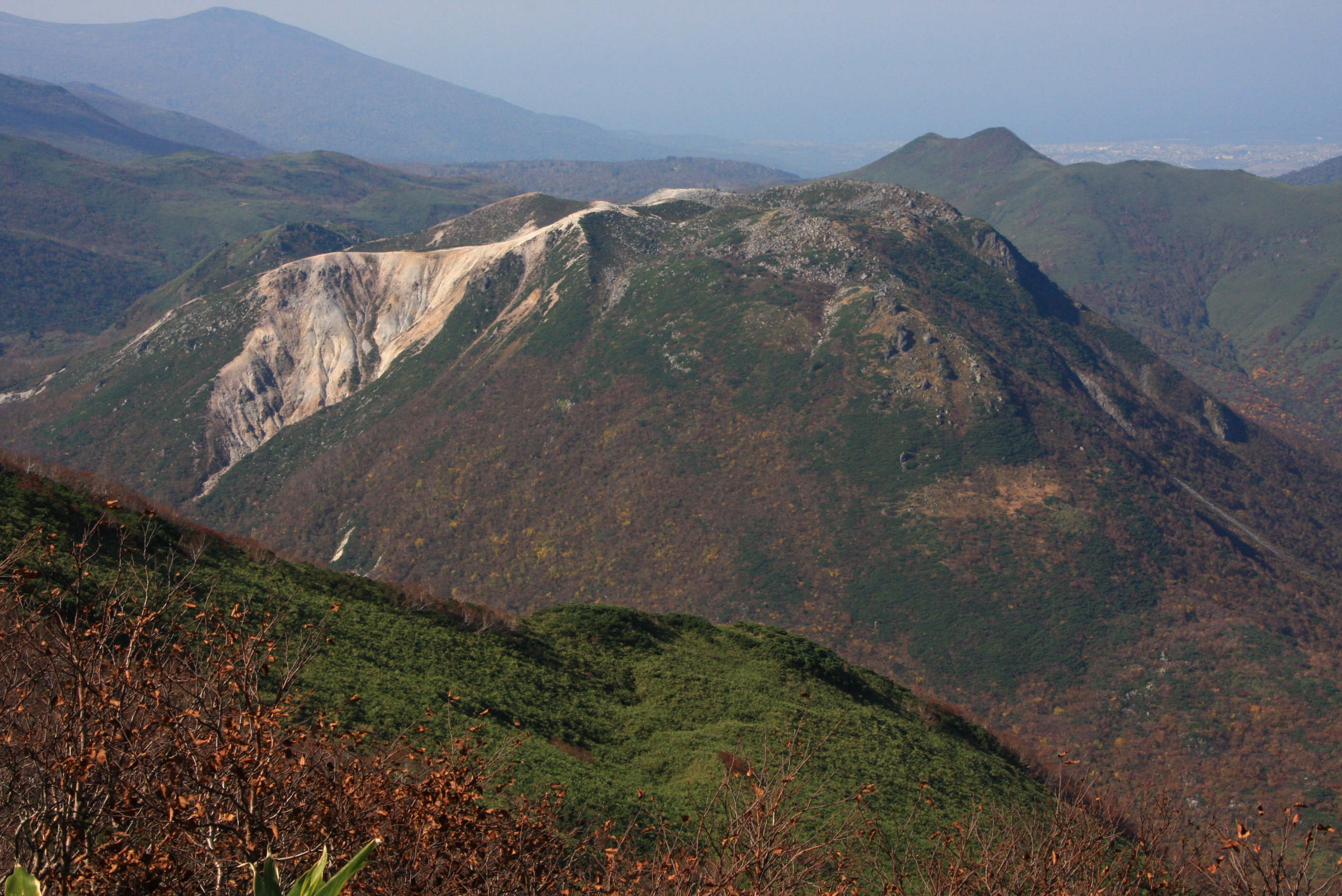 Mount Iwao (Iwaonupuri) as seen from Mount Nisekoan